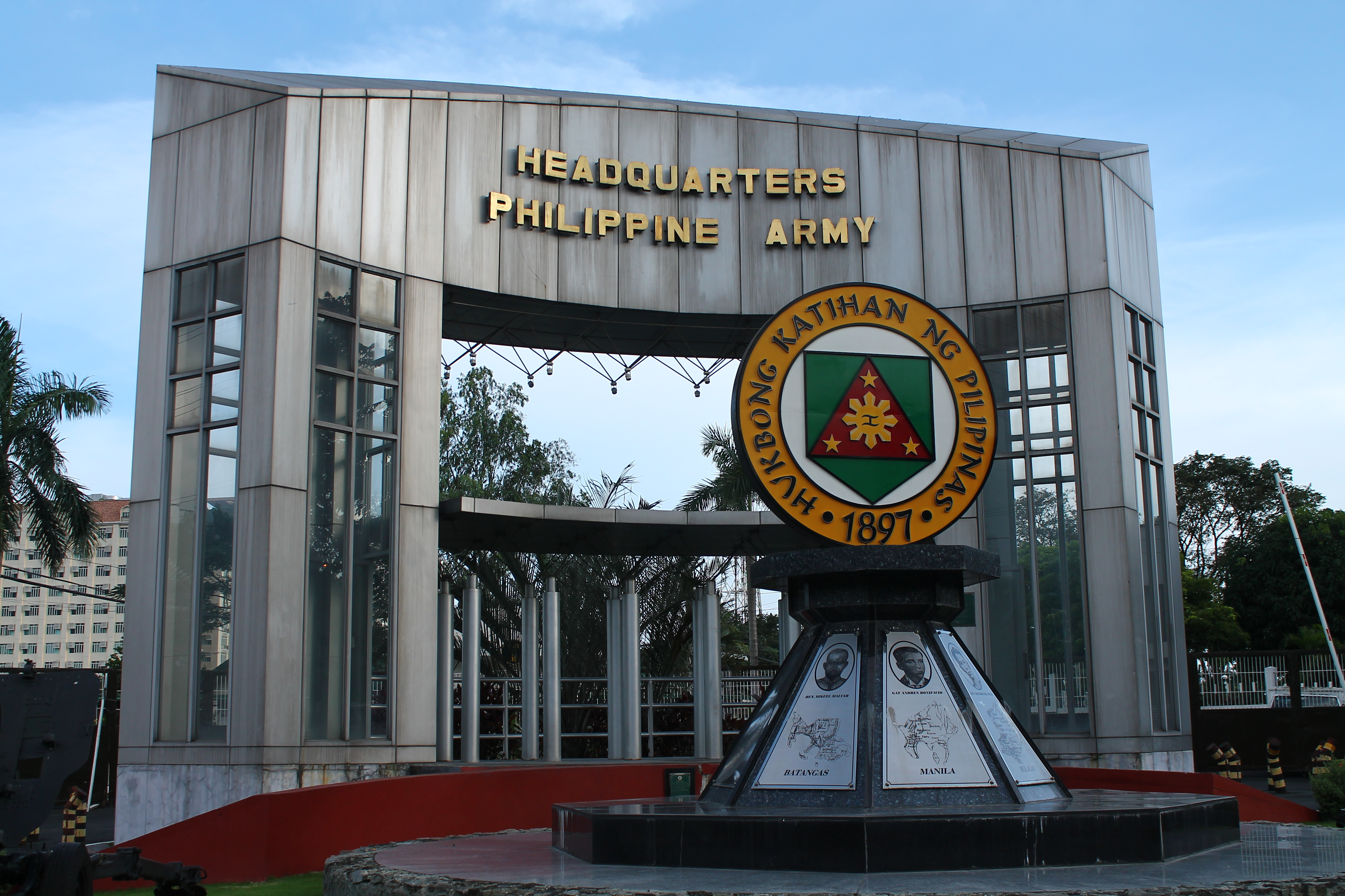 Located near McKinley Hills, Bonifacio Global City